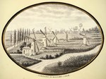 Lille : Campagne de Moulins-Lilledate : circa 1860 [1860]dimensions : 29 x 43 cm.